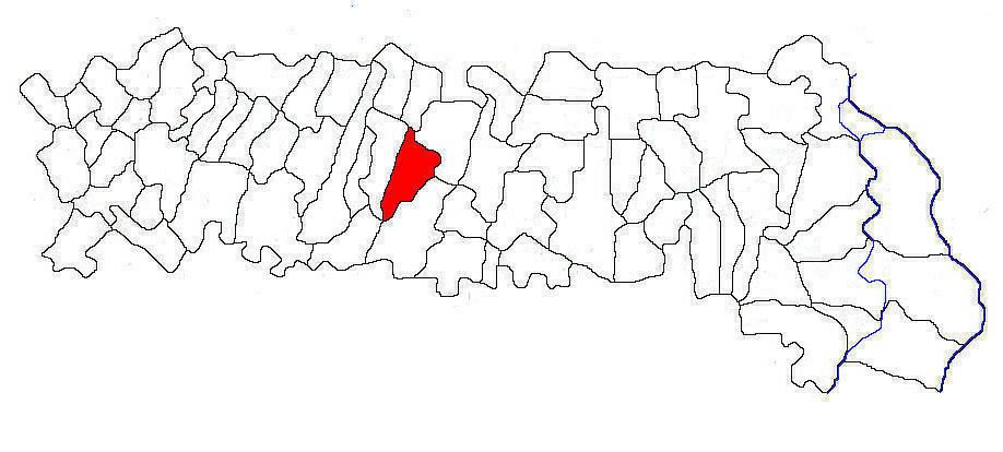 Limits of Cazanesti town